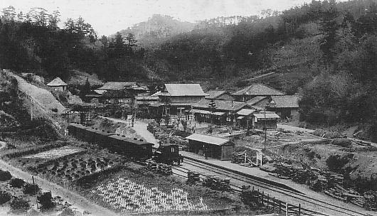 Ichibata Station in Pre-war Showa era